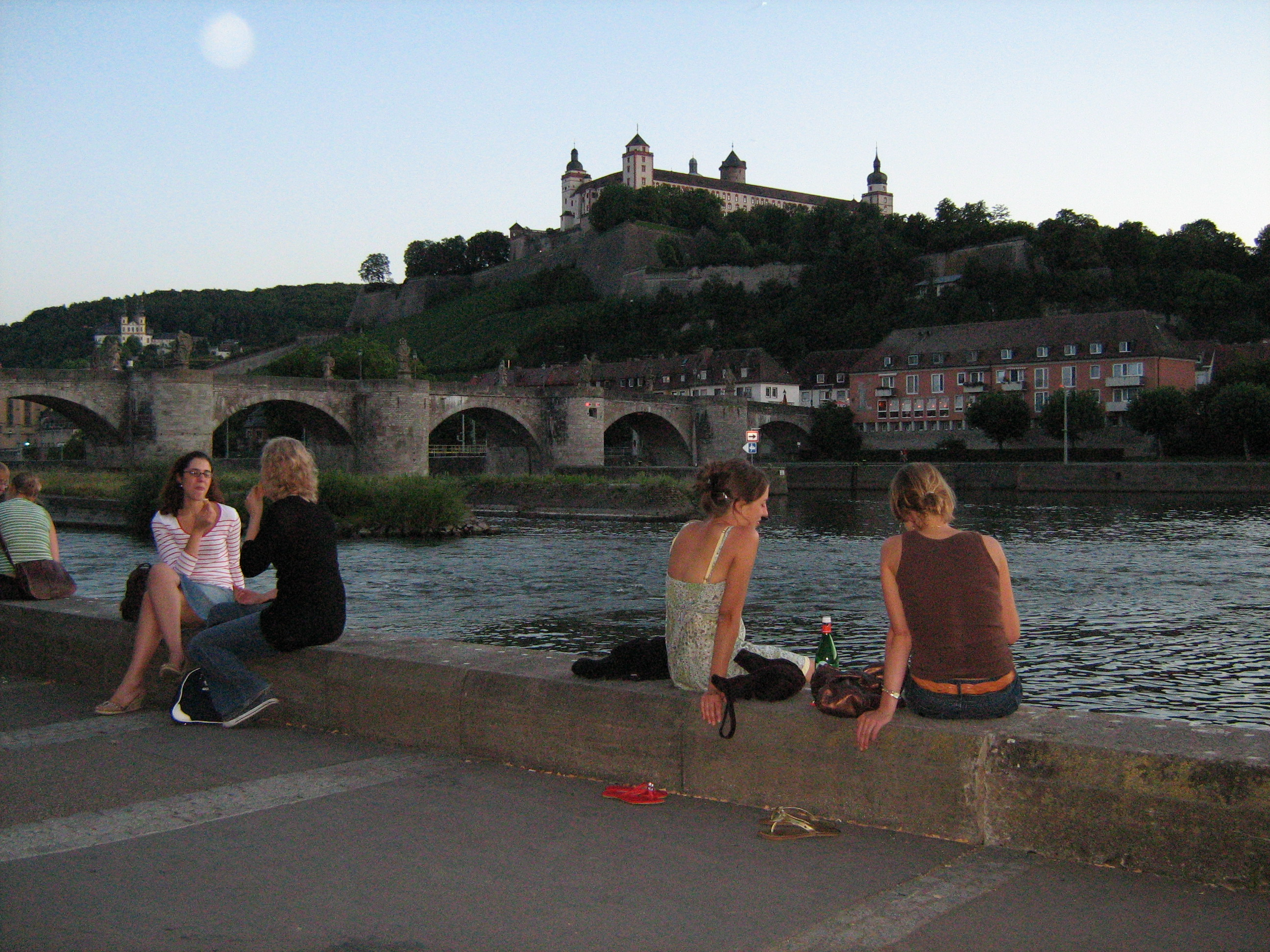 The Old Main-bridge and the Fortress Marienberg in Würzburg